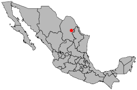 Location of Monclova, Coahuila, Mexico